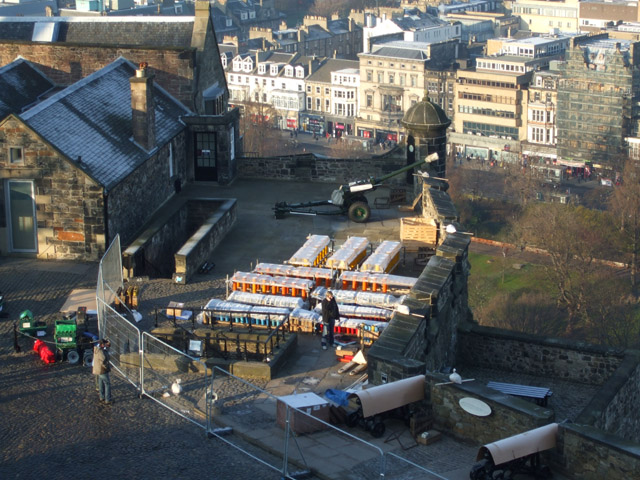 New Year's Fireworks The tubes in front of the One O'Clock Gun are some of the fireworks being prepared for the display on New Year's Eve. Note the canons have been covered to protect them.